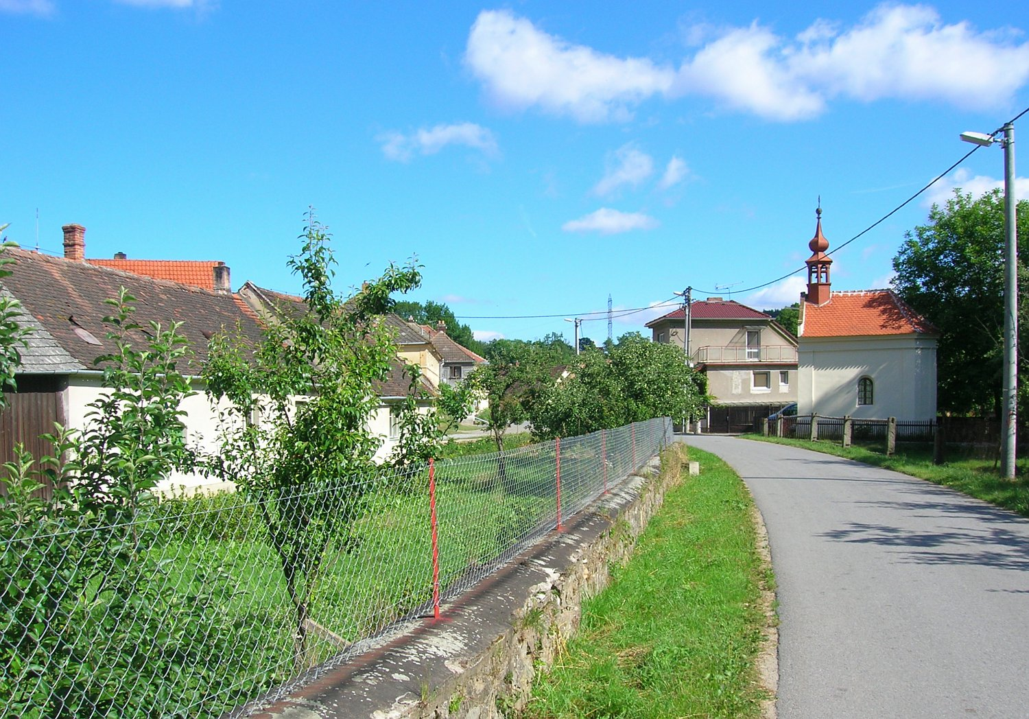 Třebíč-Řípov. Main view